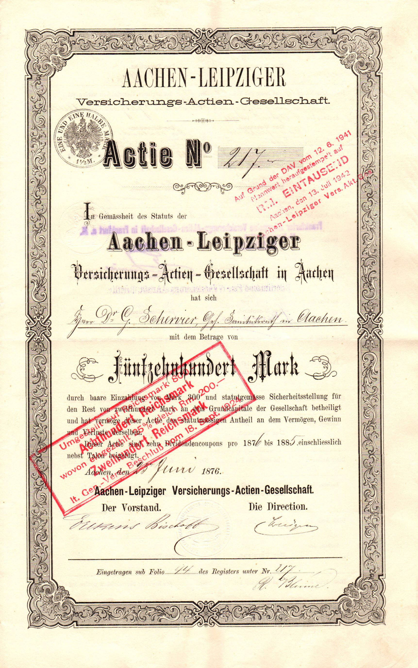 Share of the Aachen-Leipziger Versicherungs-AG, issued 25. June 1876